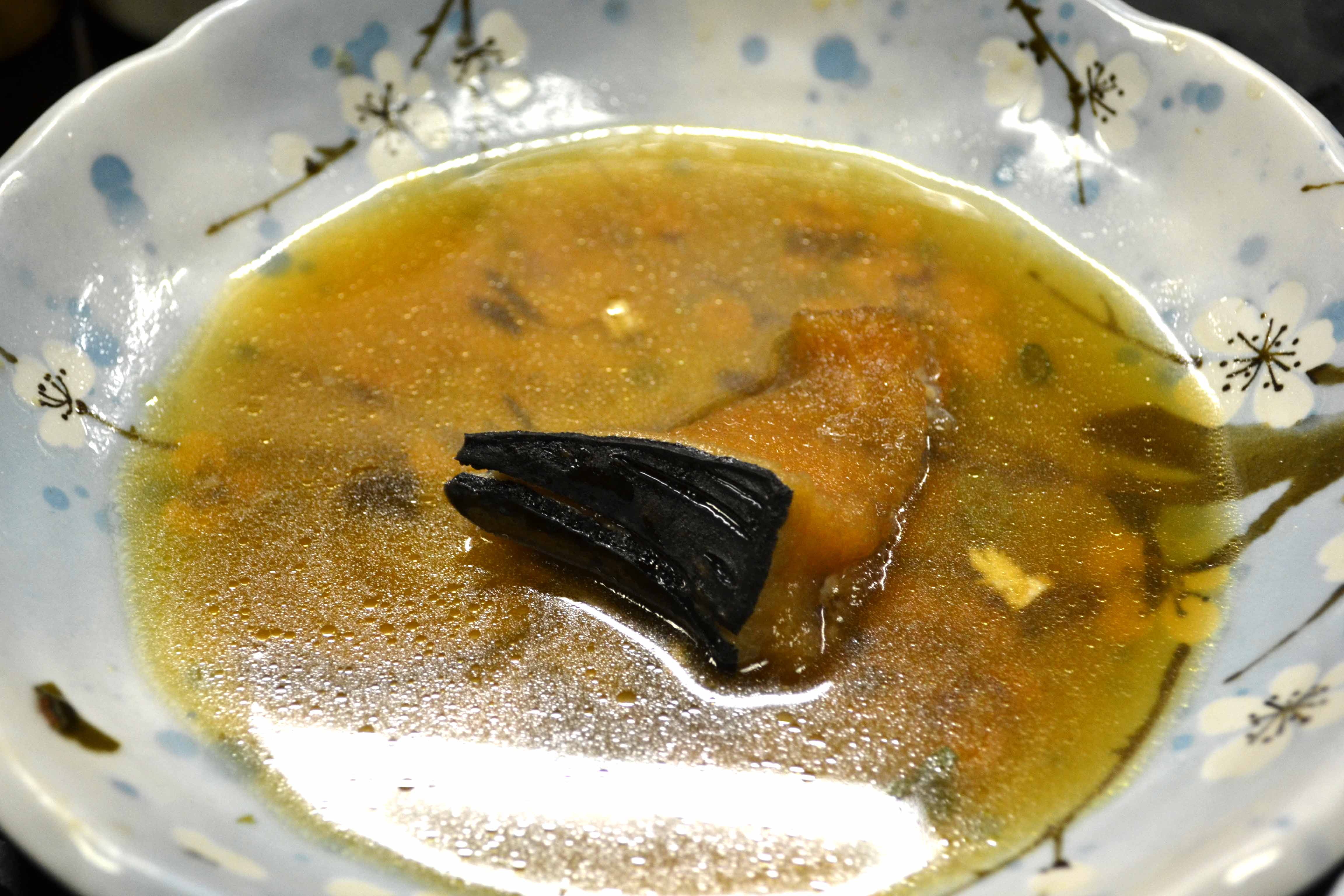 "Koro", a whale's skin whose fat is removed, served as an ingredient of "oden".